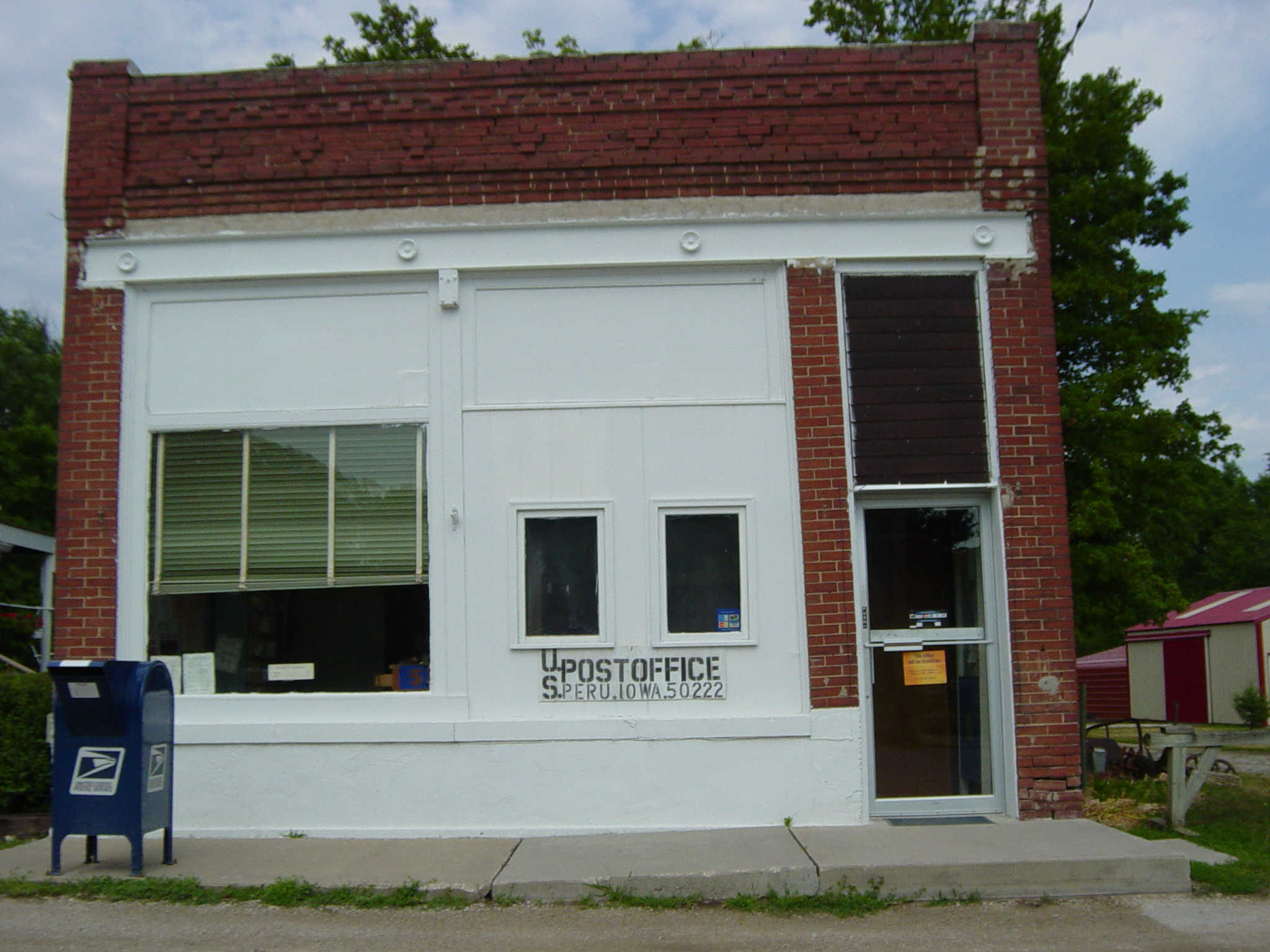 As of November 2011, the East Peru, IA Post Office is closed.